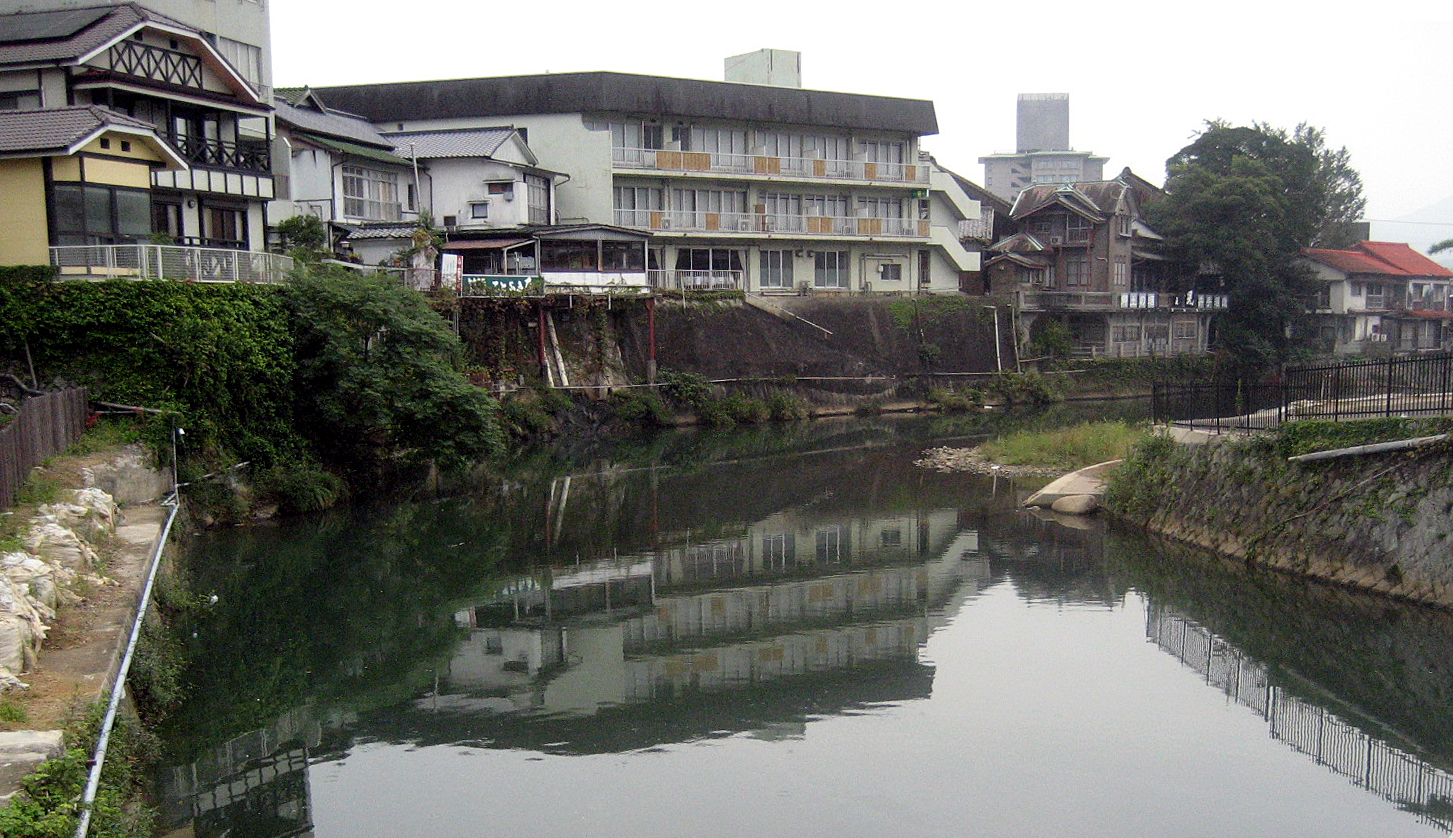 Ureshino Onsen in Saga, Japan.